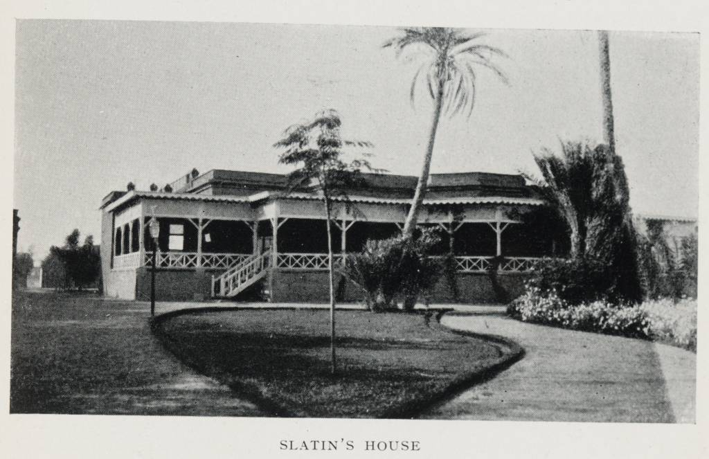 The house of Slatin Pasha, viewed from the end of the driveway in front.